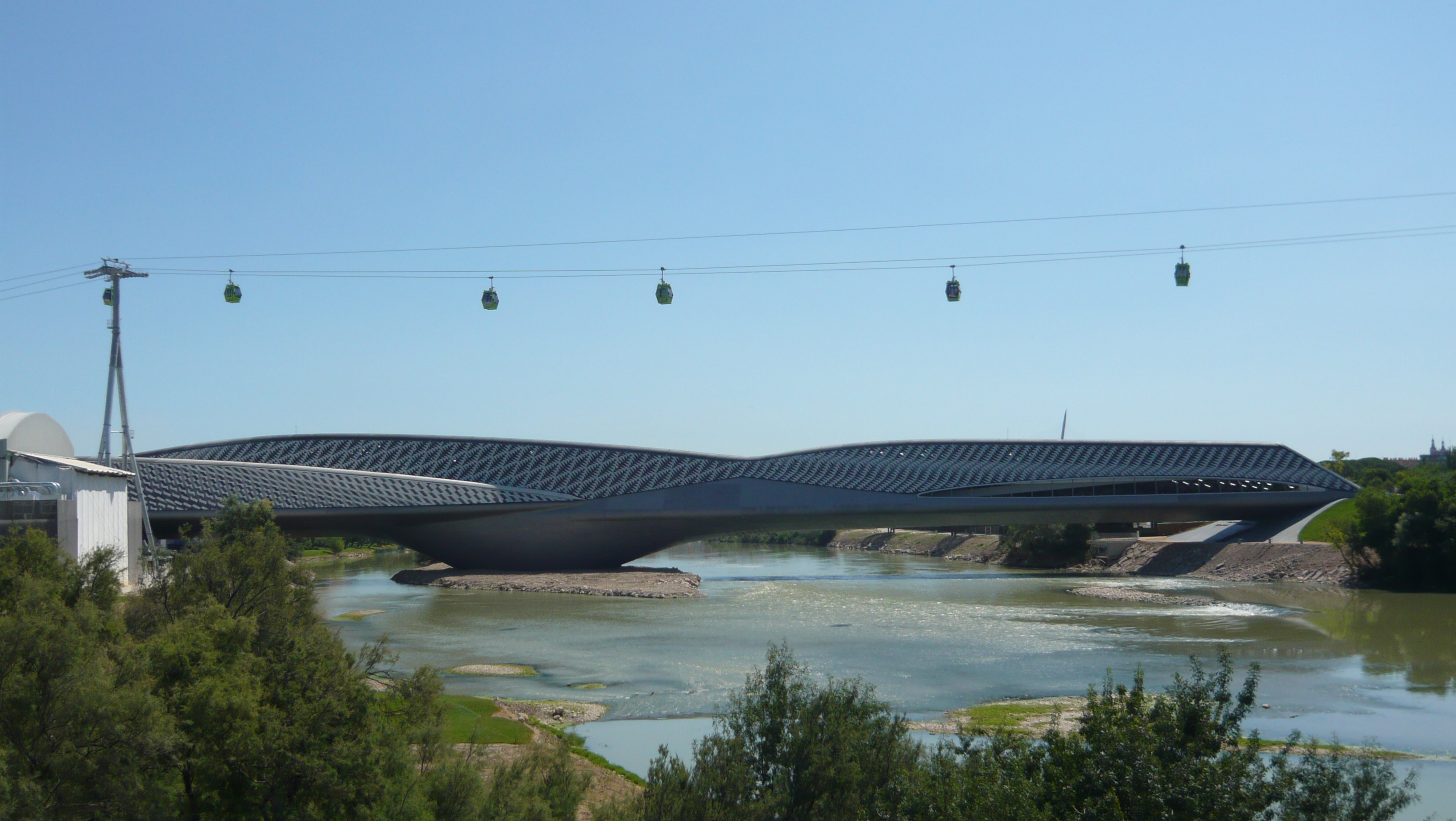 Bridge Pavillion of the International Exposition Zaragoza 2008